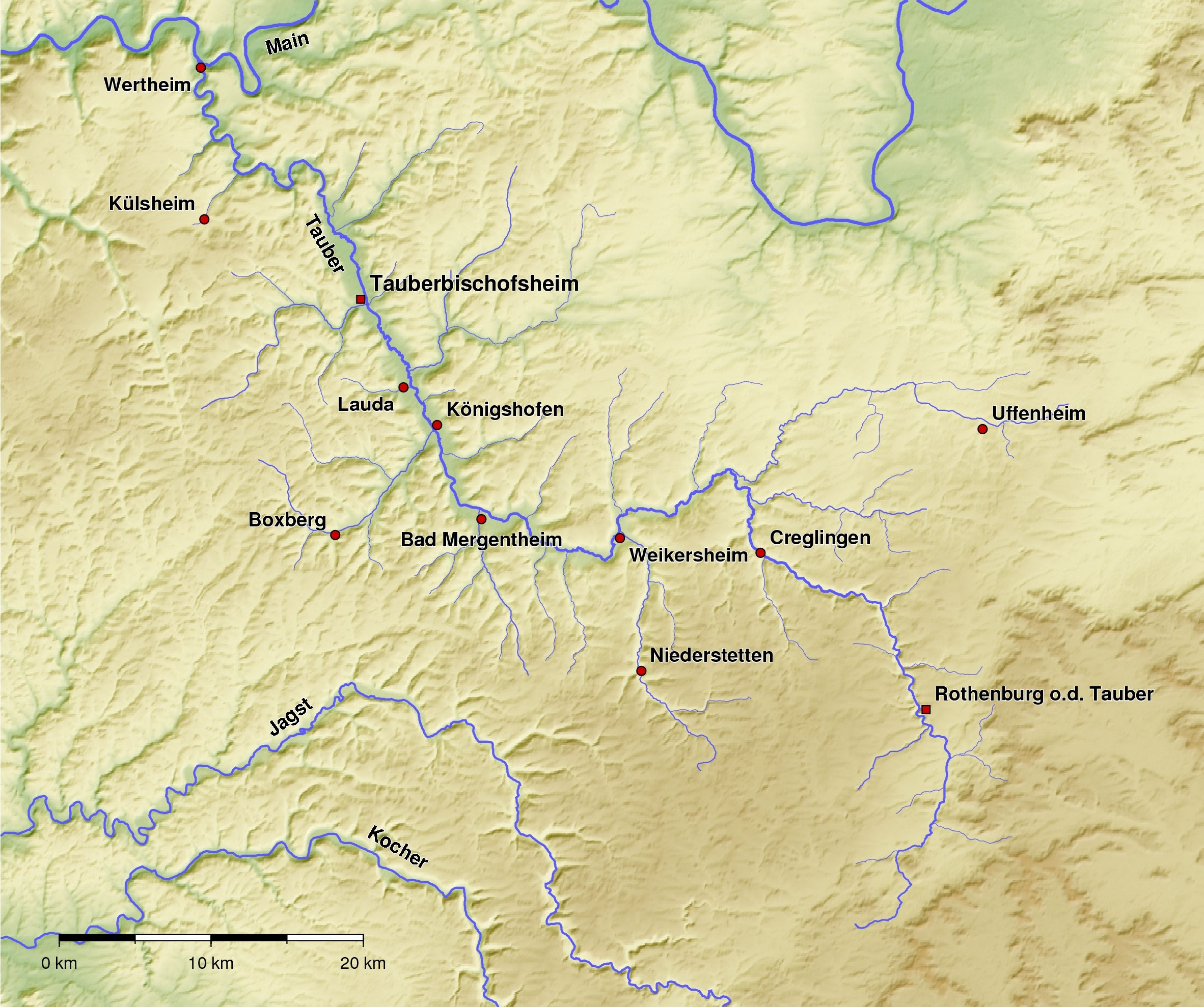 Map of the river Tauber including many tributaries